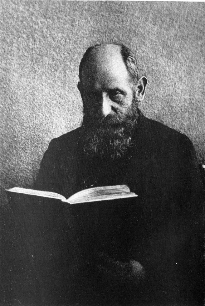 Josef Breuer 1905 (63 years old). Published in his Curriculum vitae. Reproduction from the archive of Institute for the History of Medicine, Vienna, Austria.